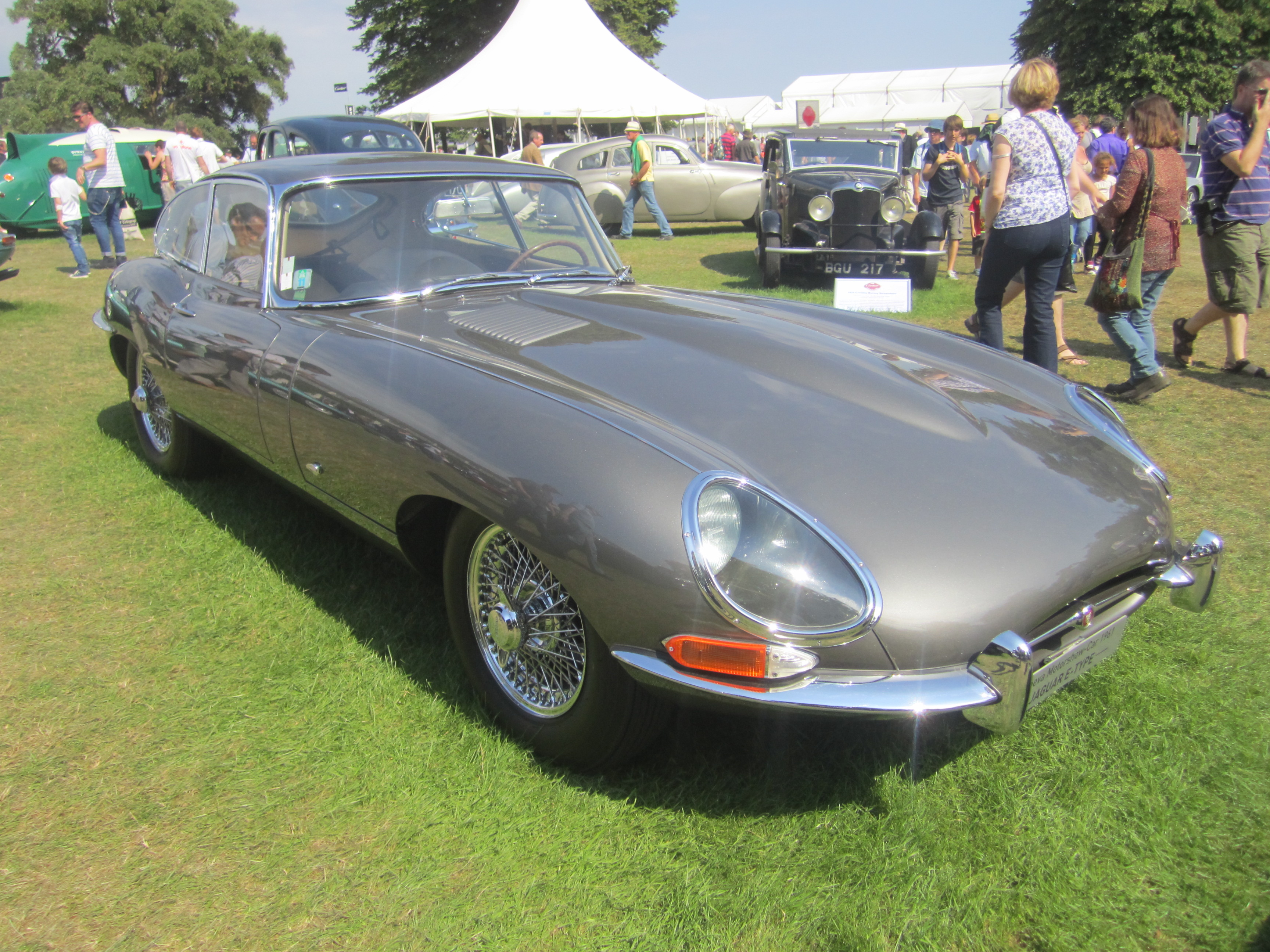 The Series I was built from 1961-68. It had a smaller mouth grille than the Series II and the indicators were above rather than below the bumpers. Available in coupe or convertible. Engine; 3800cc & then after 1964 4200cc Taken at the Goodwood Festival of Speed England 2011-Cartier Style Et Luxe Concours D'elegance